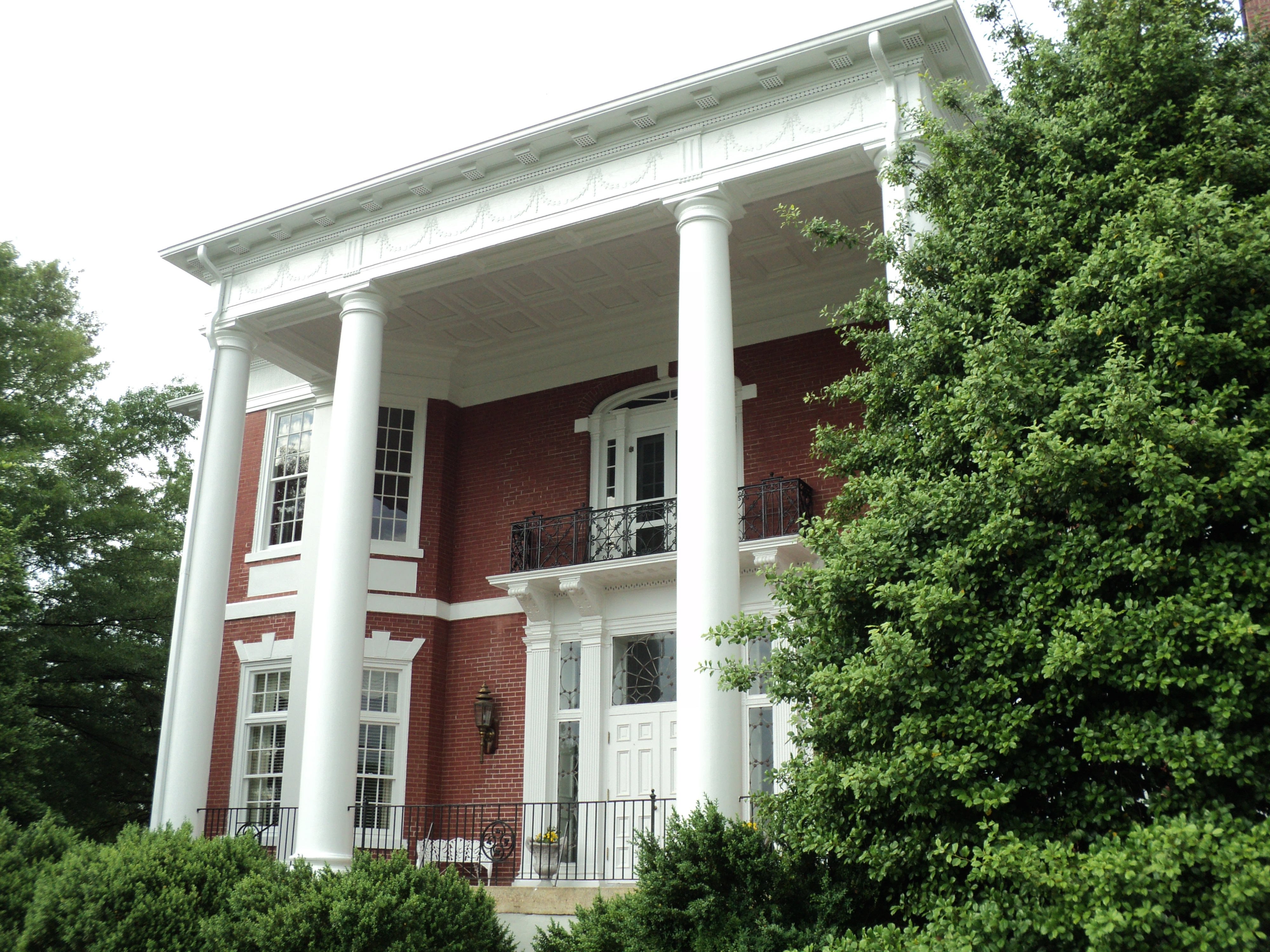 View of 'Scuffle Hill,' located at 311 East Church Street, Martinsville, Virginia, and added to the National Register of Historic Places on February 21, 1997. The original home was built by tobacco magnate Col. Pannill Rucker. After the initial structure was partially destroyed by fire, it was rebuilt and later owned by the Rives Brown family, and subsequently by the Pannill family, owner of Pannill Knitting. The home later became the parish house of Christ Episcopal Church. The home is named for the first plantation in Henry County of Revolutionary War hero General Joseph Martin, who called his first acreage 'Scuffle Hill,' as he said he had to scuffle to come up with the money for it.